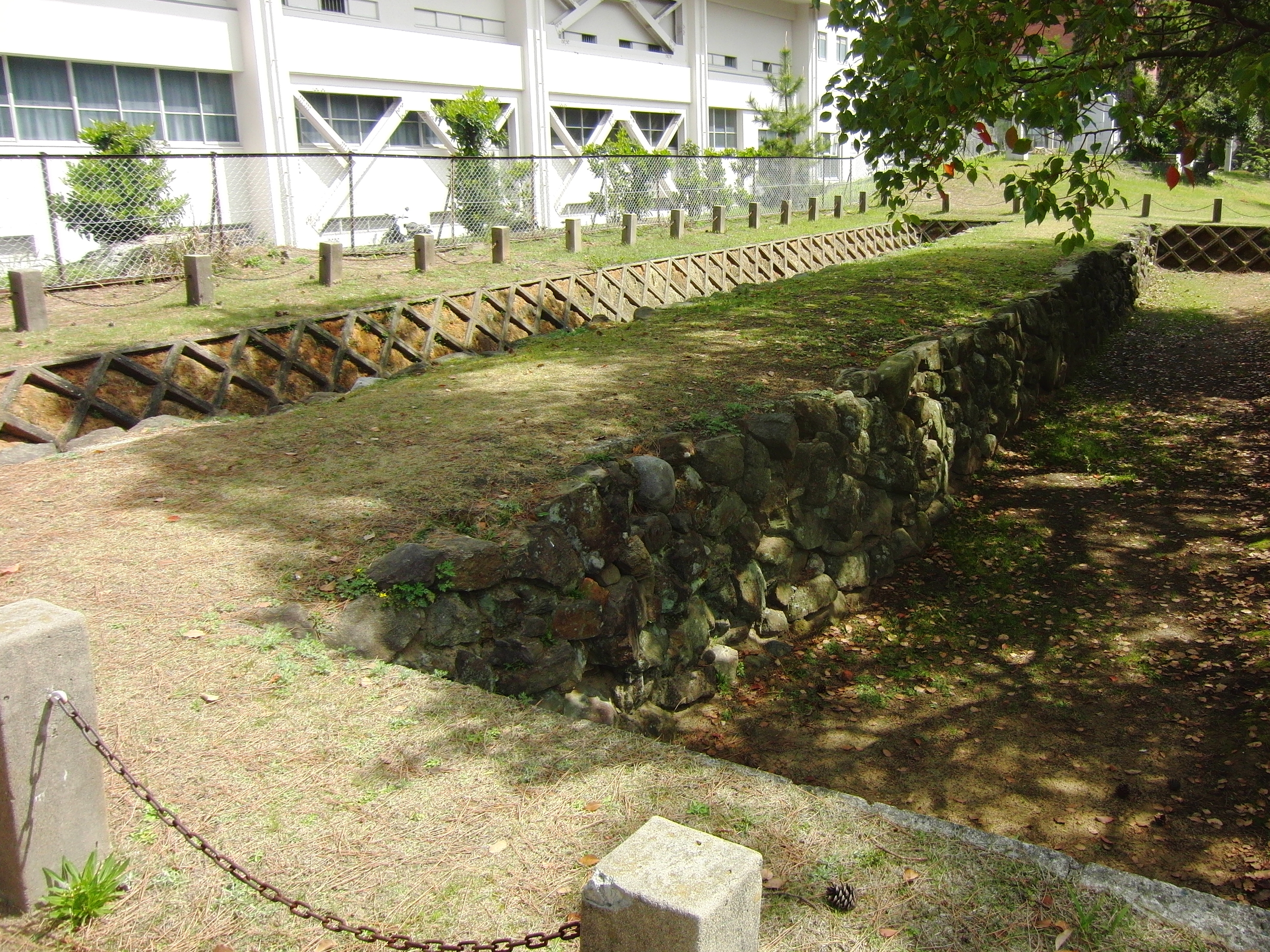 Genko Borui. Nishijin, Sawara-ku, Fukuoka, Japan.